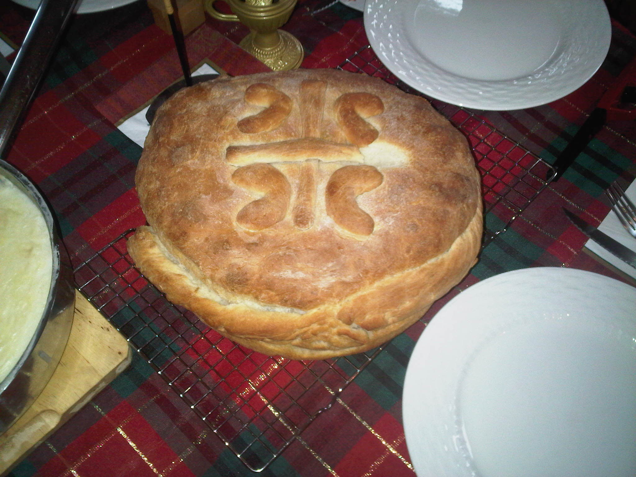 Česnica, Traditional Bread for Christmas